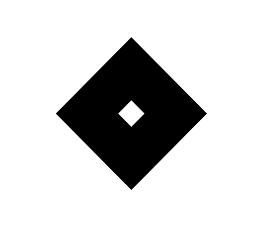 Family crest of Ueda Sōko